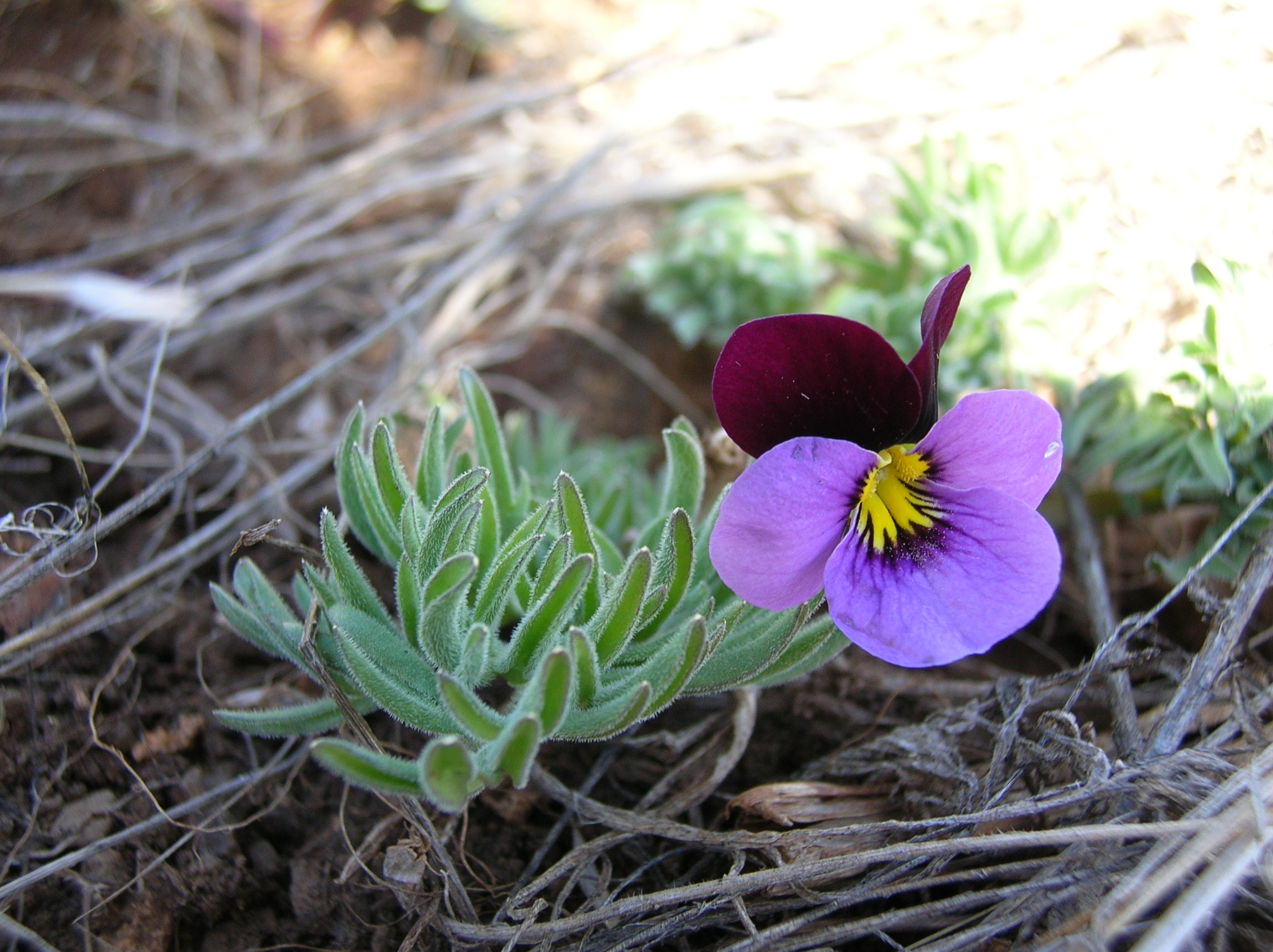 Viola beckwithii. In the Modoc National Forest, northeastern California.